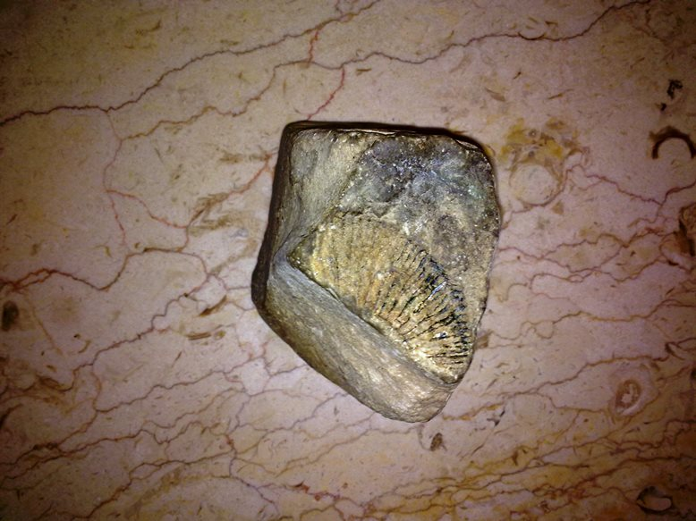 یک فسیل که از نوعی موجود در پره سر یافت شده است